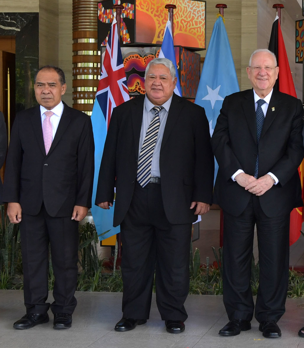 The President of Israel, Reuven Rivlin landed in Fiji, was welcomed on the island in a traditional ceremony and led a first summit meeting of the Pacific nation's. Thursday, February 20, 2020. Credit Photo: Kobi Gideon / GPO. From left: Federated States of Micronesia Embassy Charge D’Affaires Wilson Waguk, Solomon Islands Minister for Foreign Affairs Jeremiah Manele, Deputy Prime Minister of Tuvalu Minute Alapati Taupo, Samoan Prime Minister Tuilaepa Lupesoliai Sailele Malielegaoi, Israeli President Reuven Rivlin, Fijian Prime Minister Voreqe Bainimarama, Prime Minister of Papua New Guinea James Marape, Deputy Prime Minister of Tonga Sione Vuna Fa'otusia, Minister for Internal Affairs of Vanuatu Andrew Solomon Napuat at the Pullman Nadi Bay Resort and Spa on February 20, 2020.